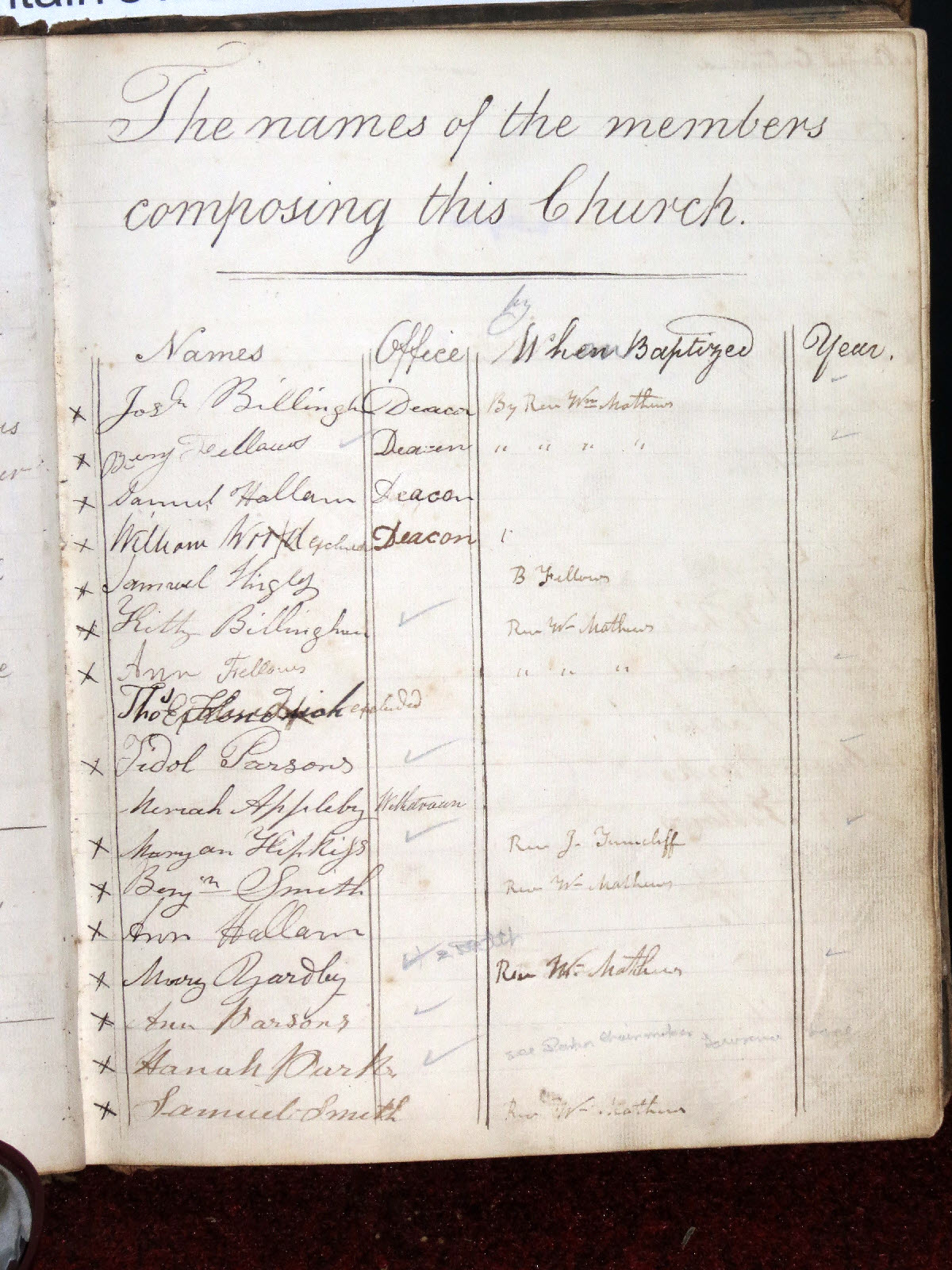 A page from the original Church Book of Cradley Heath Baptist Church showing the signature of the first members. This page was signed on Sunday 23rd December 1833, according to Baptist practice of a covenant to uphold the constitution and practice of the church as written on the preceding pages.